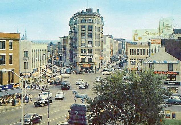 Photo postcard showing Exchange Place, the transportation and business center of Waterbury, in the early 1950s. The Apothecary Building is at top center, and the Carrie Welton Fountain at bottom center.